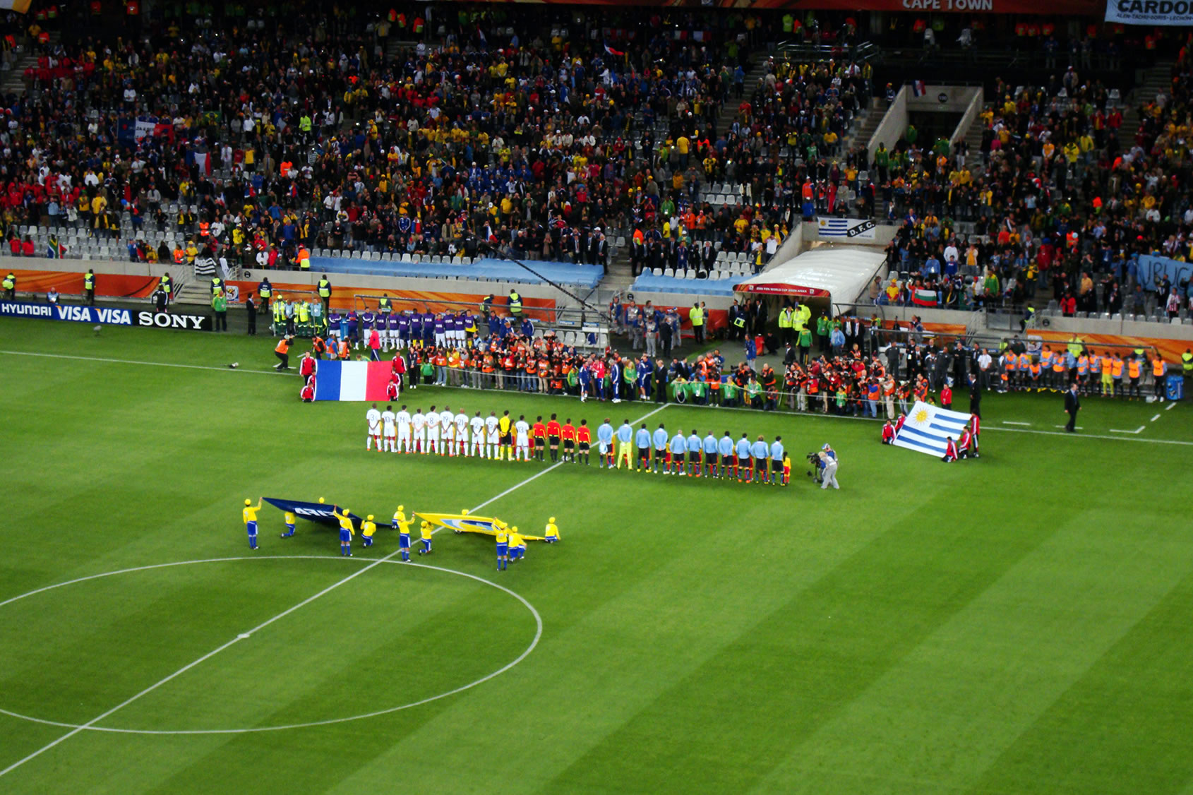 Teams on the pitch before the kick-off of the game between Uruguay and France at FIFA World Cup 2010, 11 June 2010, Green Point Stadium, Cape Town